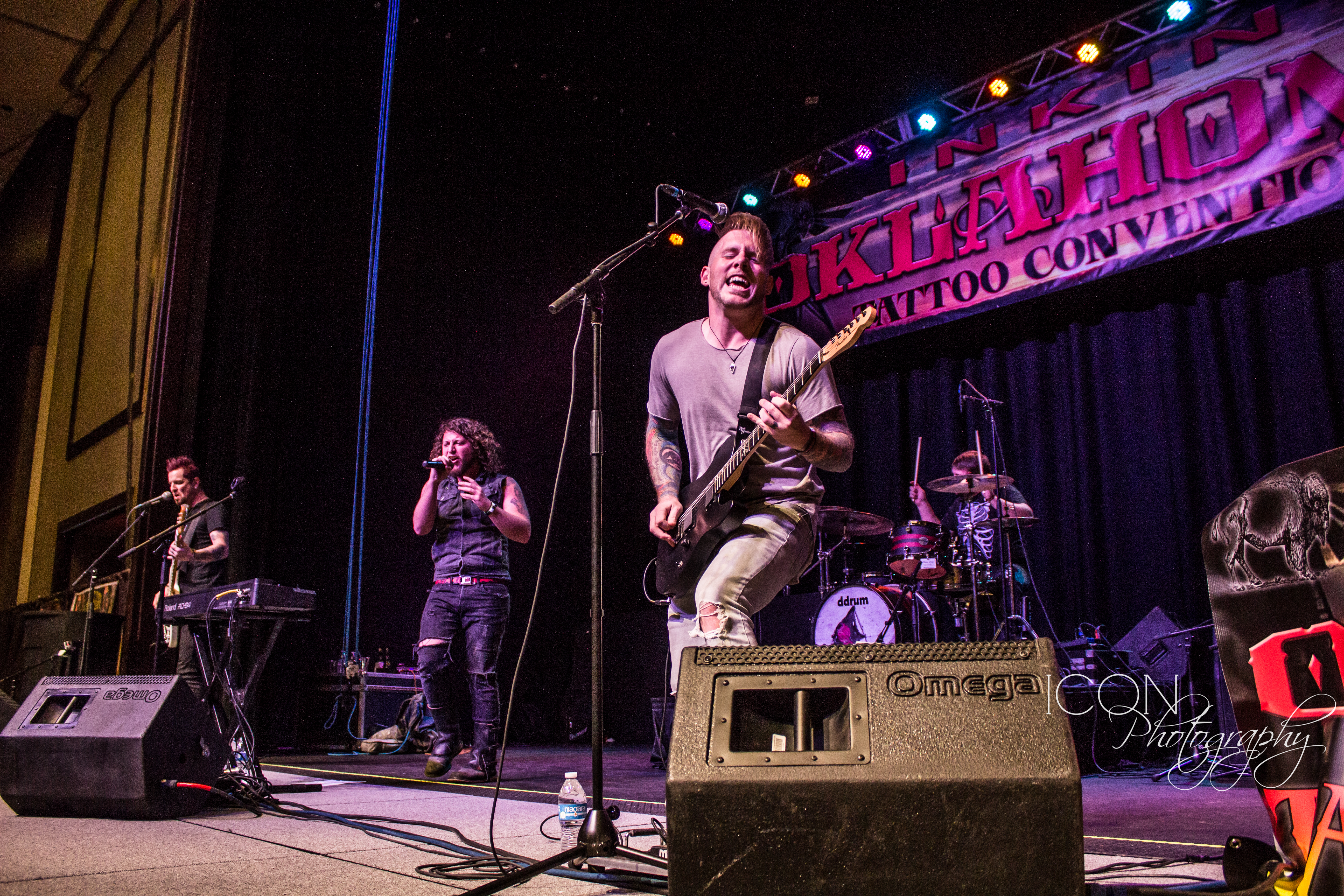 Wild Fire performing at Inkin Oklahoma